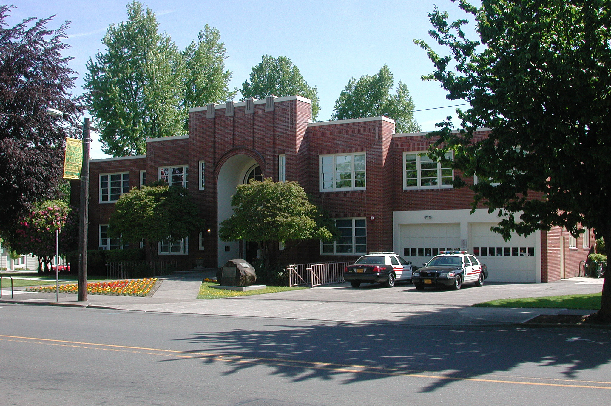 City Hall in Milwaukie, Oregon, United States. Photo taken from the west side of Main Street, looking east.